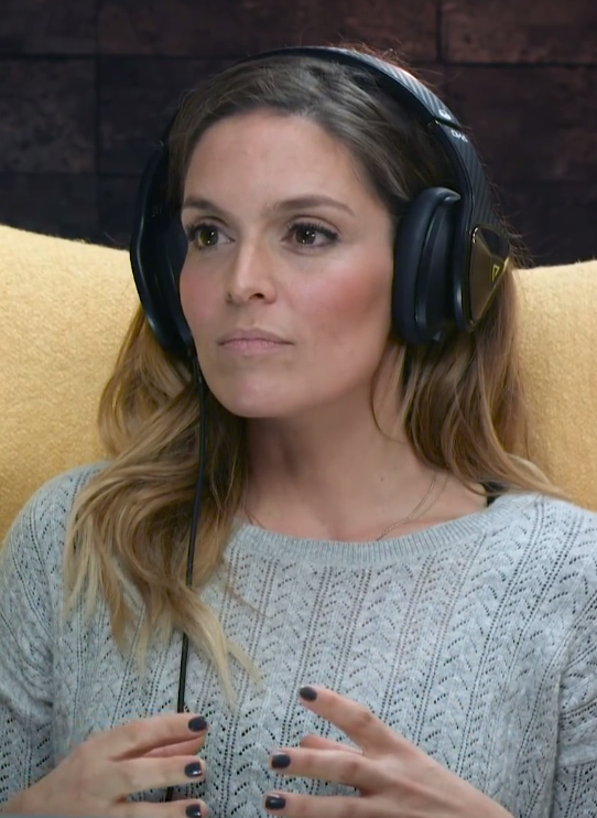 Diana Chaves (1981-present), Portuguese model, actress and television hostess.